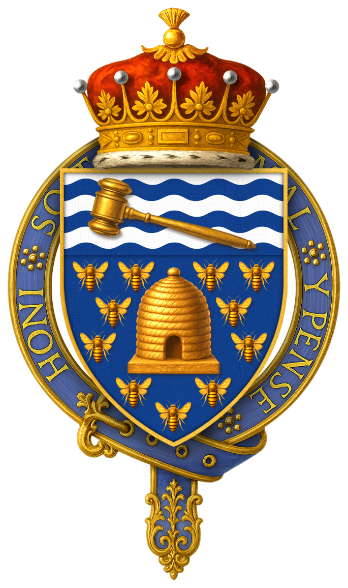 Garter-encircled arms of A. V. Alexander, 1st Earl Alexander of Hillsborough, KG, as displayed on his Order of the Garter stall plate in St. George's Chapel, Windsor Castle.